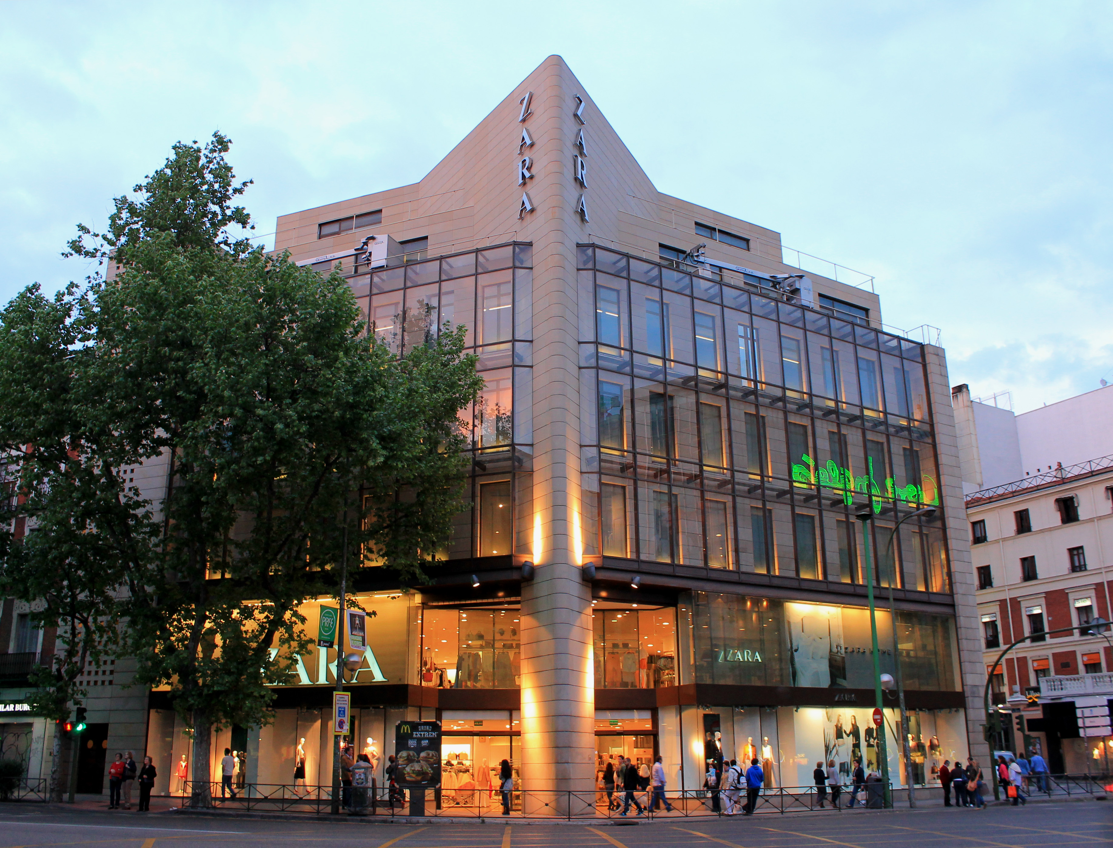 A Zara store at 58 Calle de la Princesa (street) in Madrid (Spain).